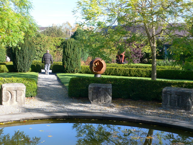 Butler House gardens, Kilkenny Pool in the gardens which also has many garden ornaments.